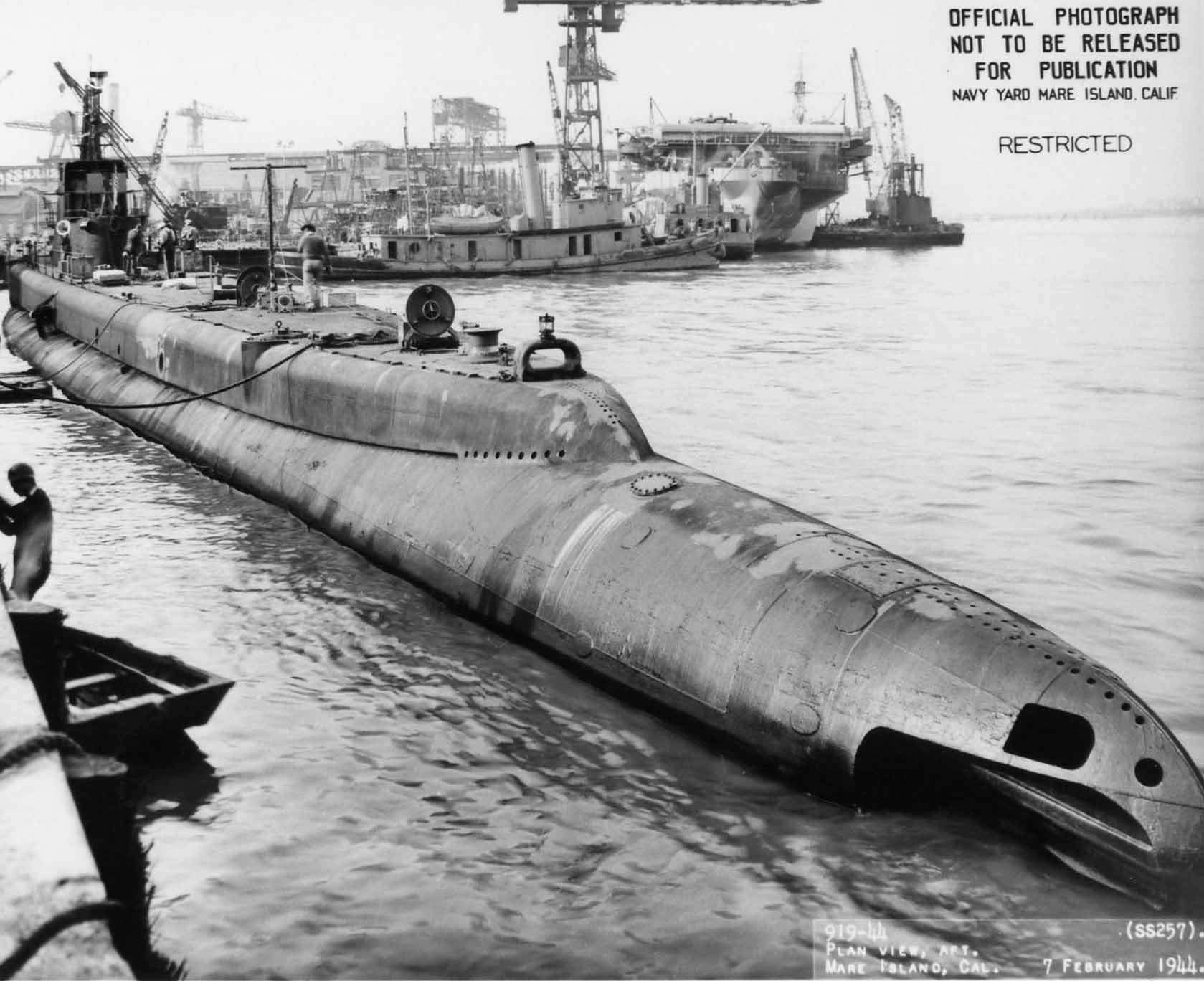 Aft plan view of the Harder (SS-257) at Mare Island on 7 February 1944. Harder was in overhaul at the shipyard from 12 December 1943 until 19 February 1944. The stern of Prince William (CVE-31) is to the right.